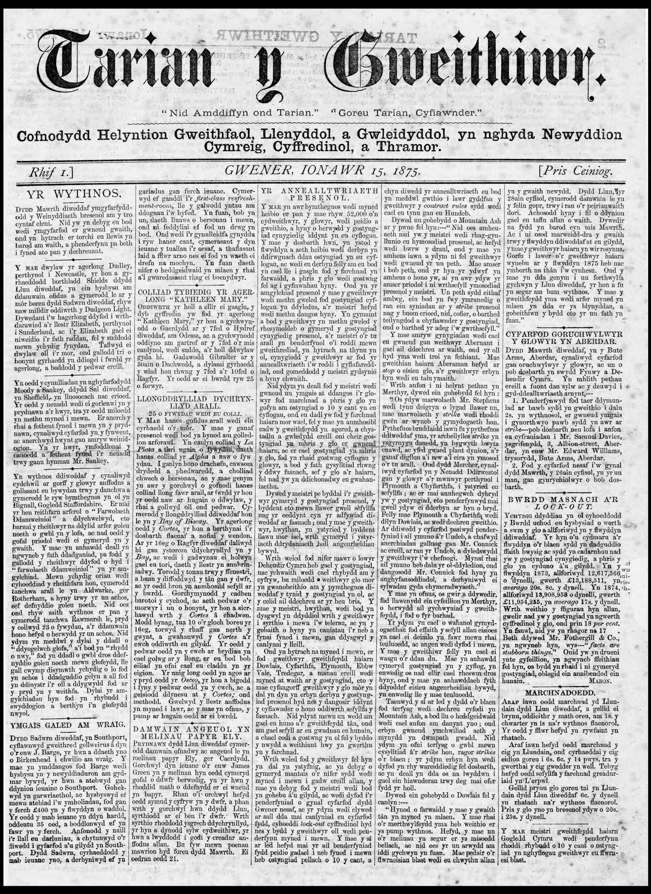 Front page of the earliest surviving copy of the Welsh newspaper Tarian y Gweithiwr